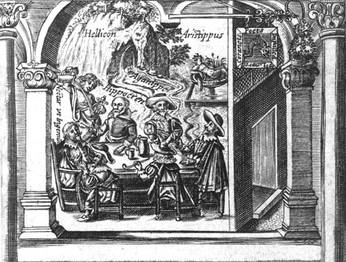 Top half of the title page of A Solemne Joviall Disputation, Theoreticke and Practicke; briefly shadowing the Law of Drinking (London, 1617) by Richard Braithwaite